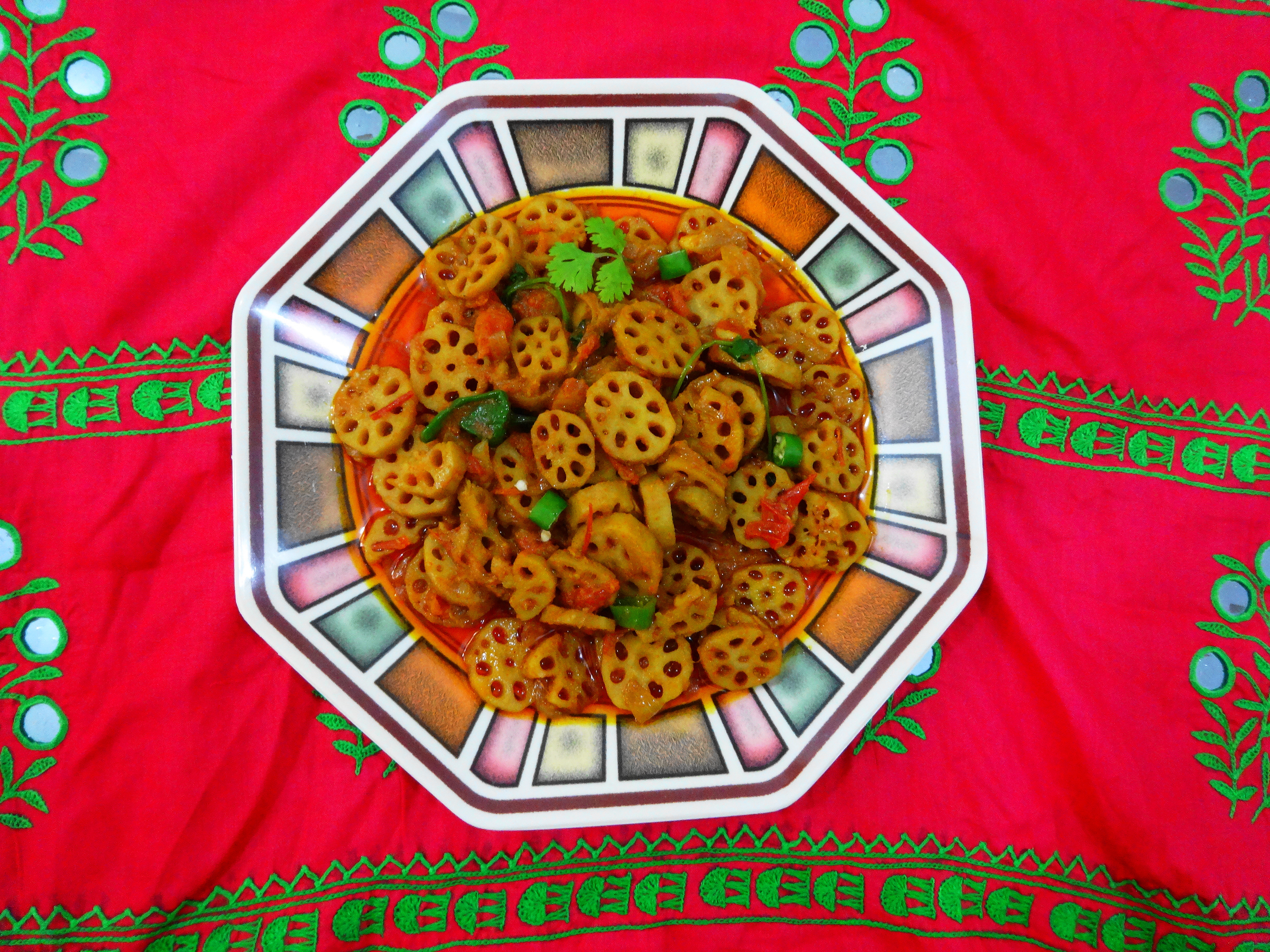 Sindhi Bhee Ki Sabzi, Sindhi Bhe Ji Bhaji,Kamal Kakdi Bhaji, Lotus Root Curry Sindhi Style, Lotus Stem Curry, سندھی بھہ کی بھاجی،